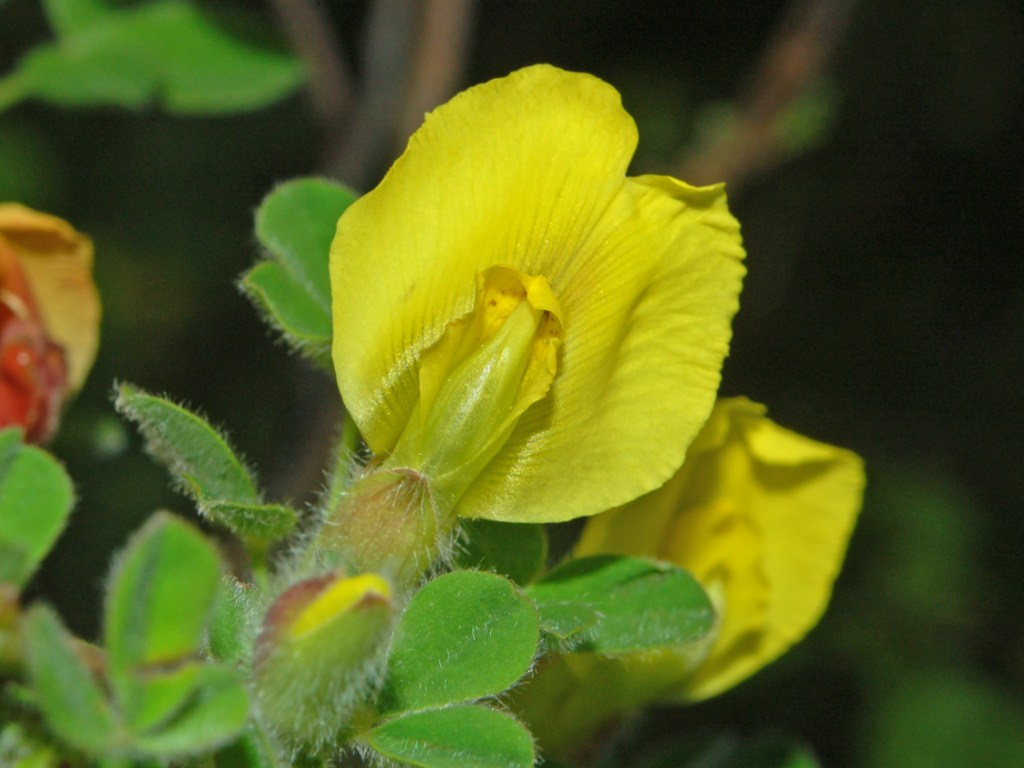 Chamaecytisus hirsutus - Genova, Italy